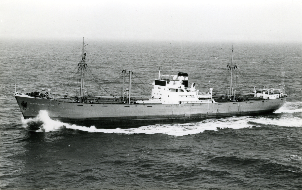 General cargo ship REIMAR EDZARD FRITZEN (IMO 5045122) built at Rheinstahl Nordseewerke, Emden (yard № 244, launched: 1951, delivered: 17-10-1951), 1963 renamed ARCHON MICHAEL, wrecked near Nakskov 01-05-1975, BU Hamburg 25-06-1975.